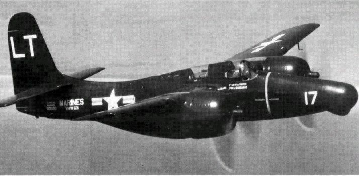 A U.S. Marine Corps Grumman F7F-3N Tigercat night fighter of Marine night fighter squadron VMF(N)-531 on a training flight out of Marine Corps Air Station Cherry Point, North Carolina (USA), in April 1950.